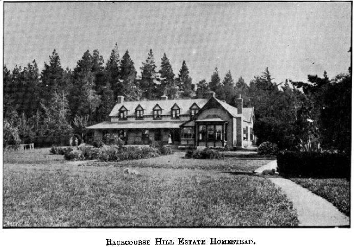 Racecourse Hill Estate is situated midway between Darfield and Sheffield. It has an area of about 4500 acres, and originally formed a portion of a run of 40,000 acres, owned by J. C. Watts Russell and A. R. Creyke, in the very early days of Canterbury.